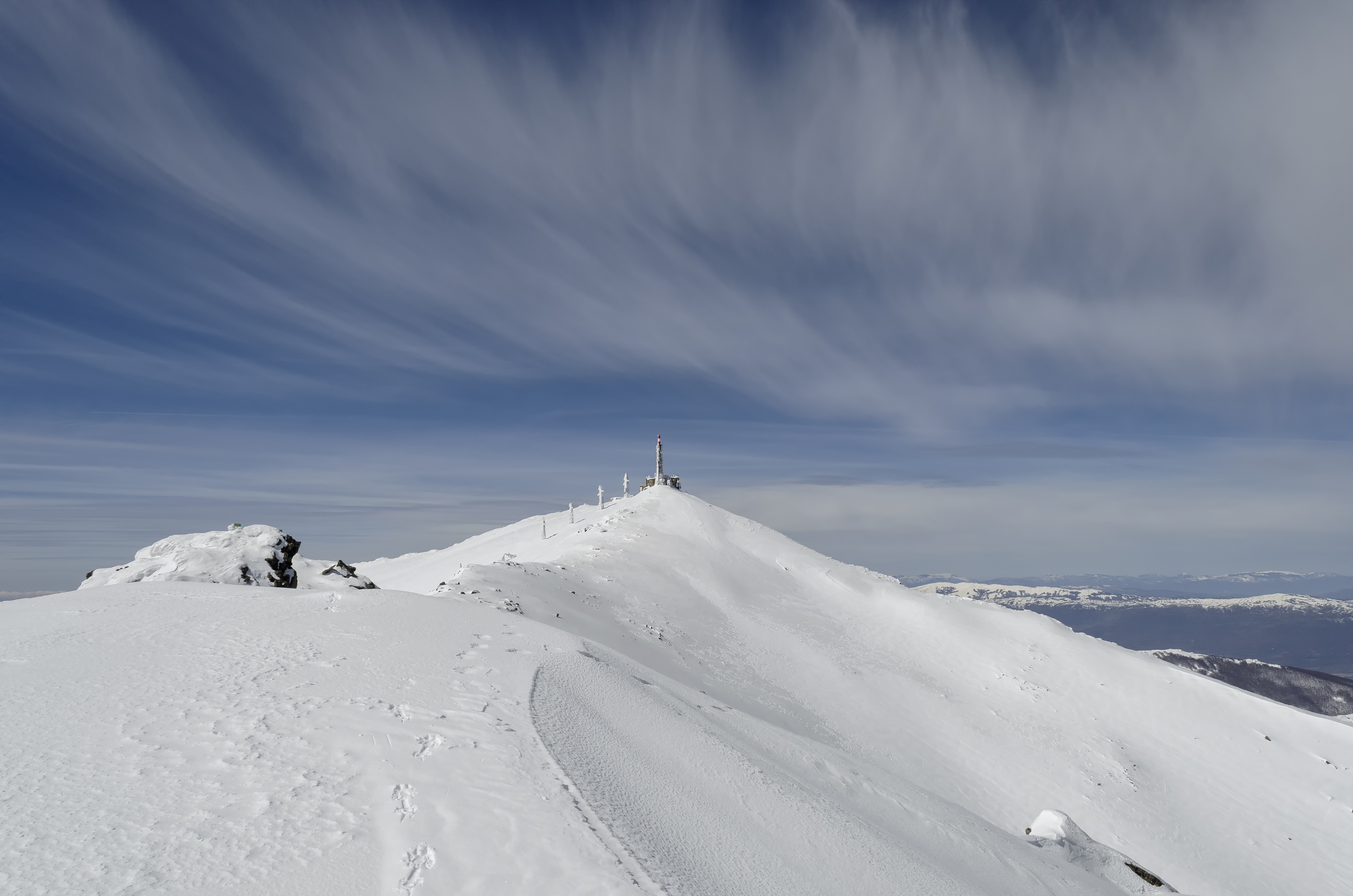 Pelister (2,601 m) seen from the peak of Ilinden (2,542 m) with the mountains Galičica and Jablanica in the background.